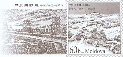 Stamp of Moldova